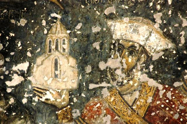 The portrait of a nobleman of the Jaqeli family. A 1381 fresco from the Chule monastery by Arsen